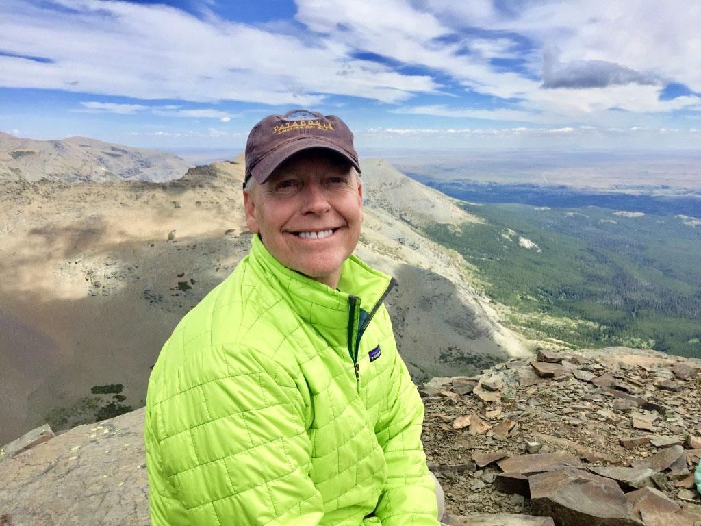 Jim Williams is the author of Path of the Puma: The Remarkable Resilience of the Mountain Lion. Location: Red Crow Peak, Glacier National Park, Montana.